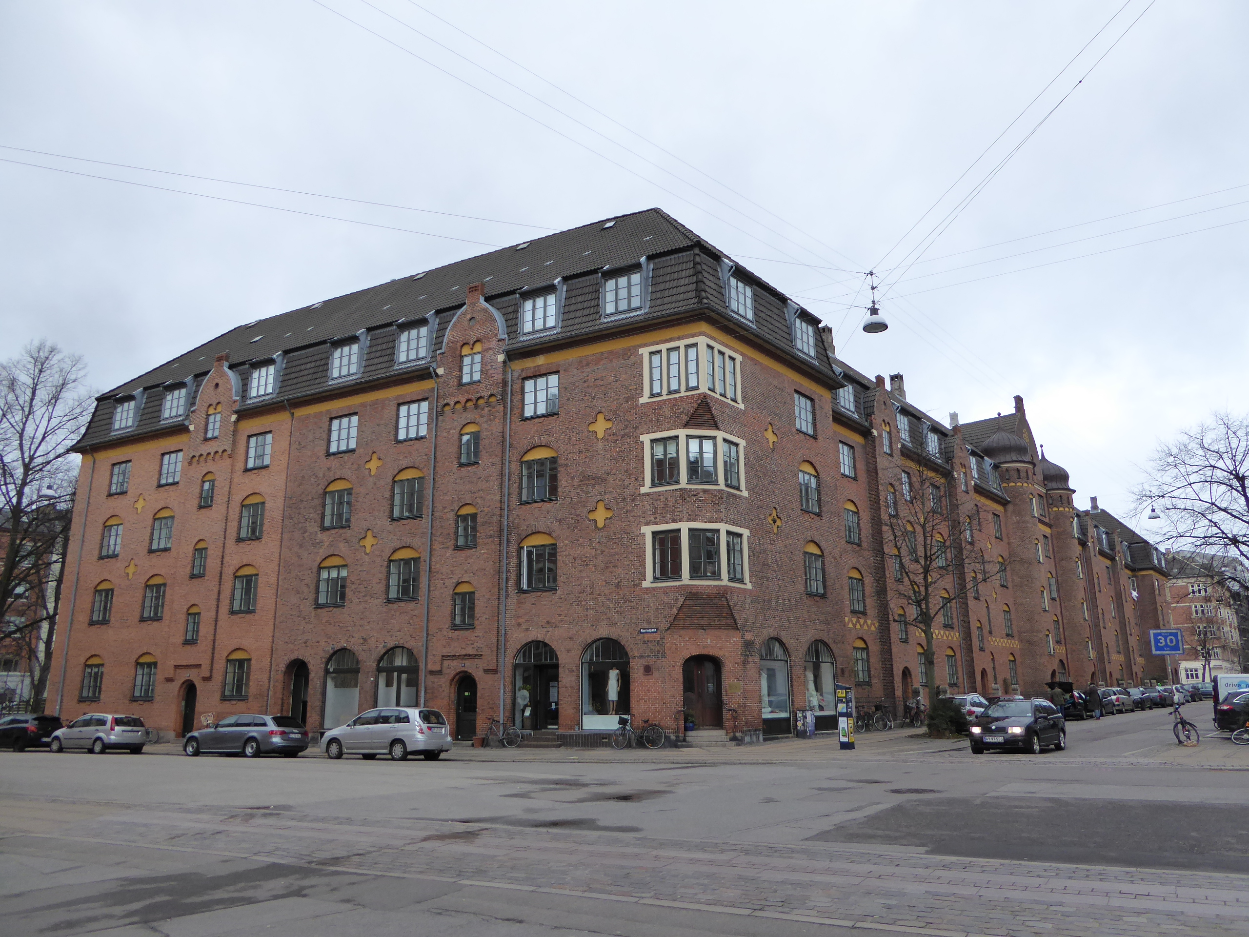 The housing cooperative A/B Kræmmerhuset at the corner of Nannasgade and Ægirsgade in Nørrebro in Copenhagen.